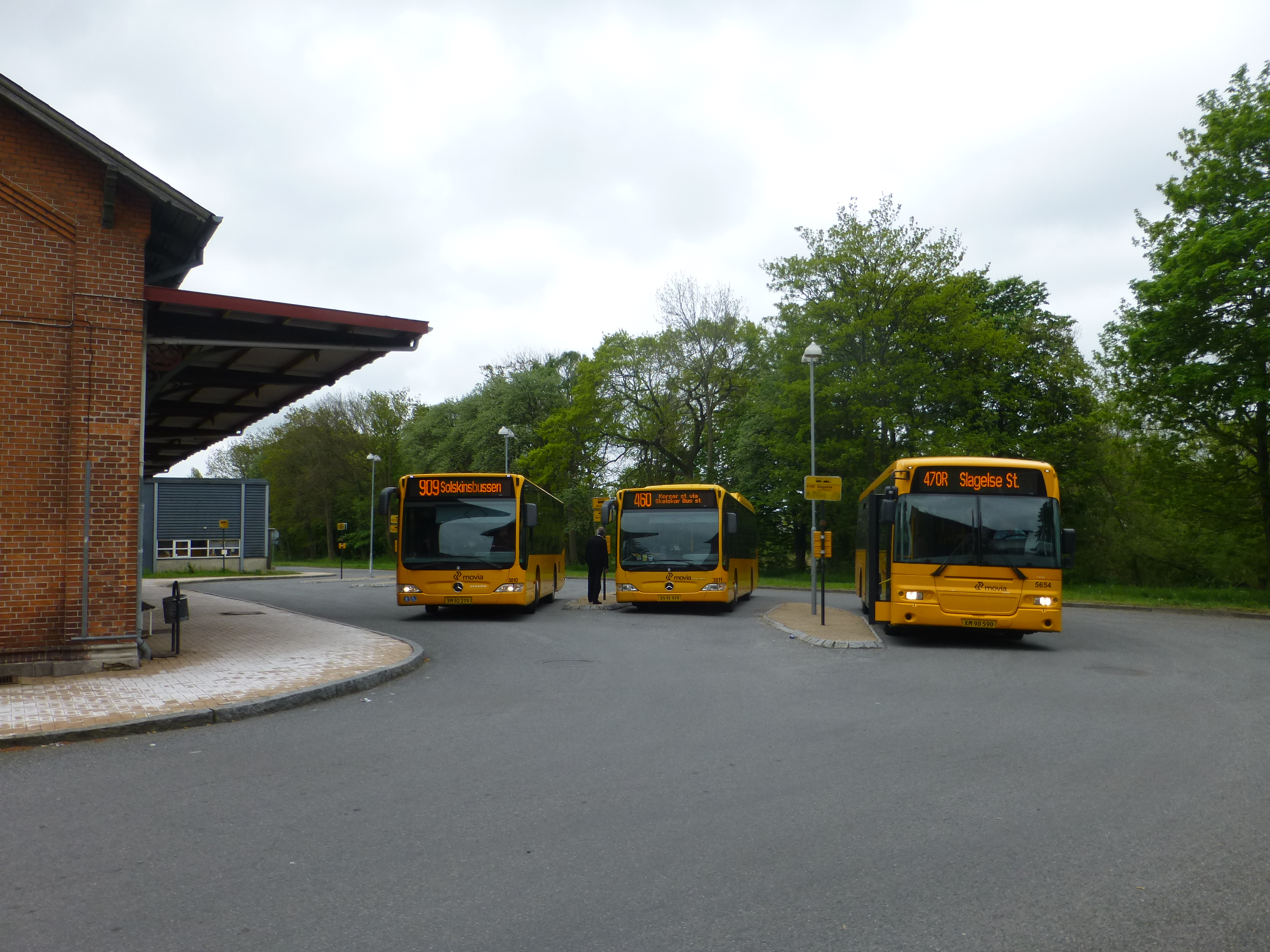 Movia bus line 909, 460 and 470R at the former railway station in Skælskør in Denmark.